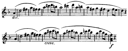 Theme of the Scherzo (3rd movement) from Ludwig van Beethoven's (1770–1827) Symphony No. 6 in F major (Pastoral, 1808)